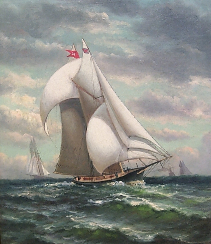 Schooner Regatta, Great Lakes, by William Torgerson